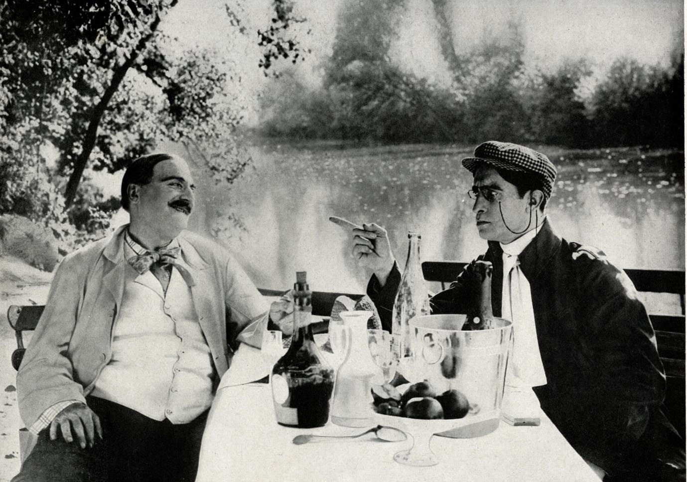 Screenshot from the film Parisette by Louis Feuillade